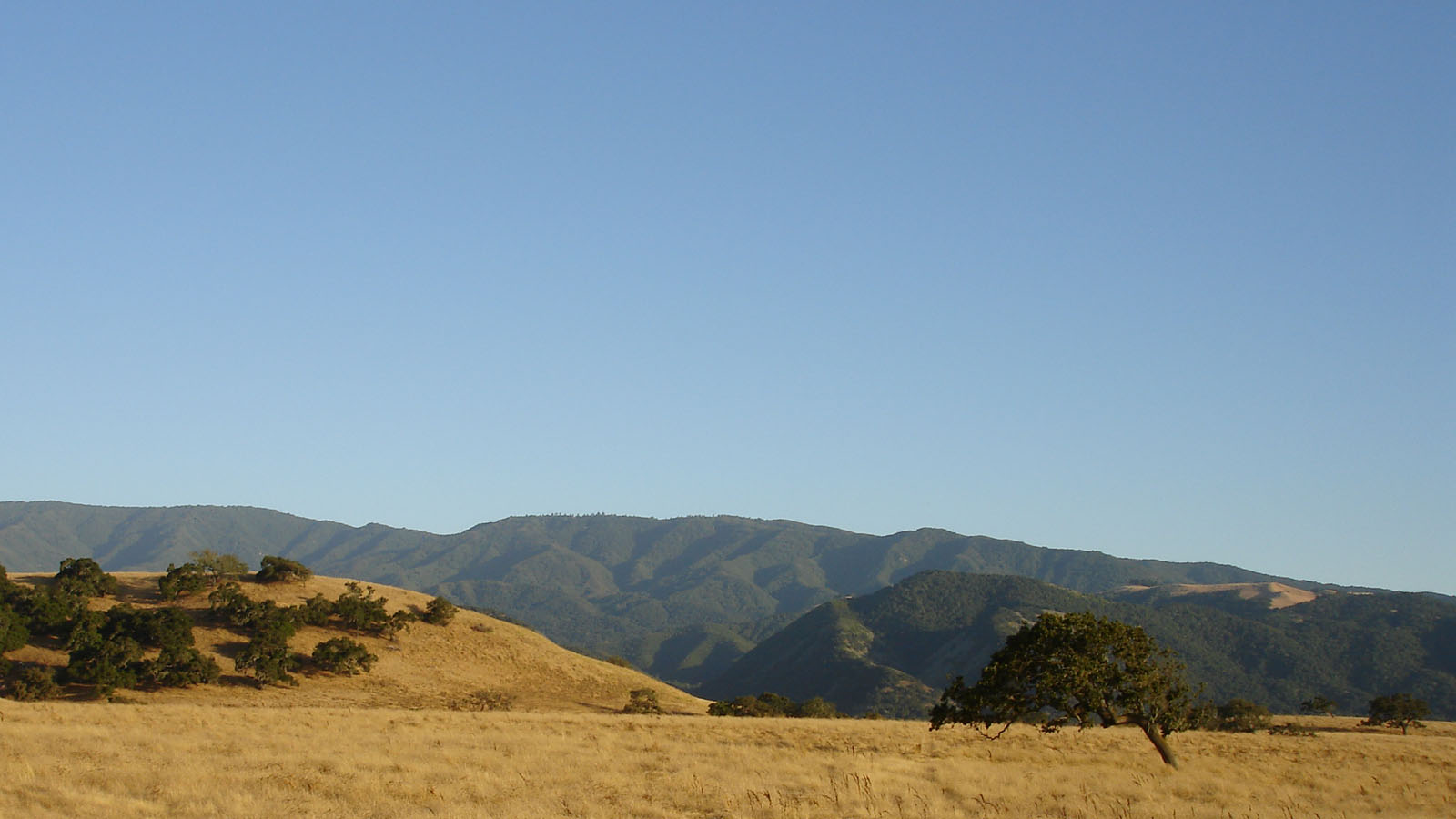 North facing slopes of the Santa Ynez Mountains showing oak savanna in the foreground.